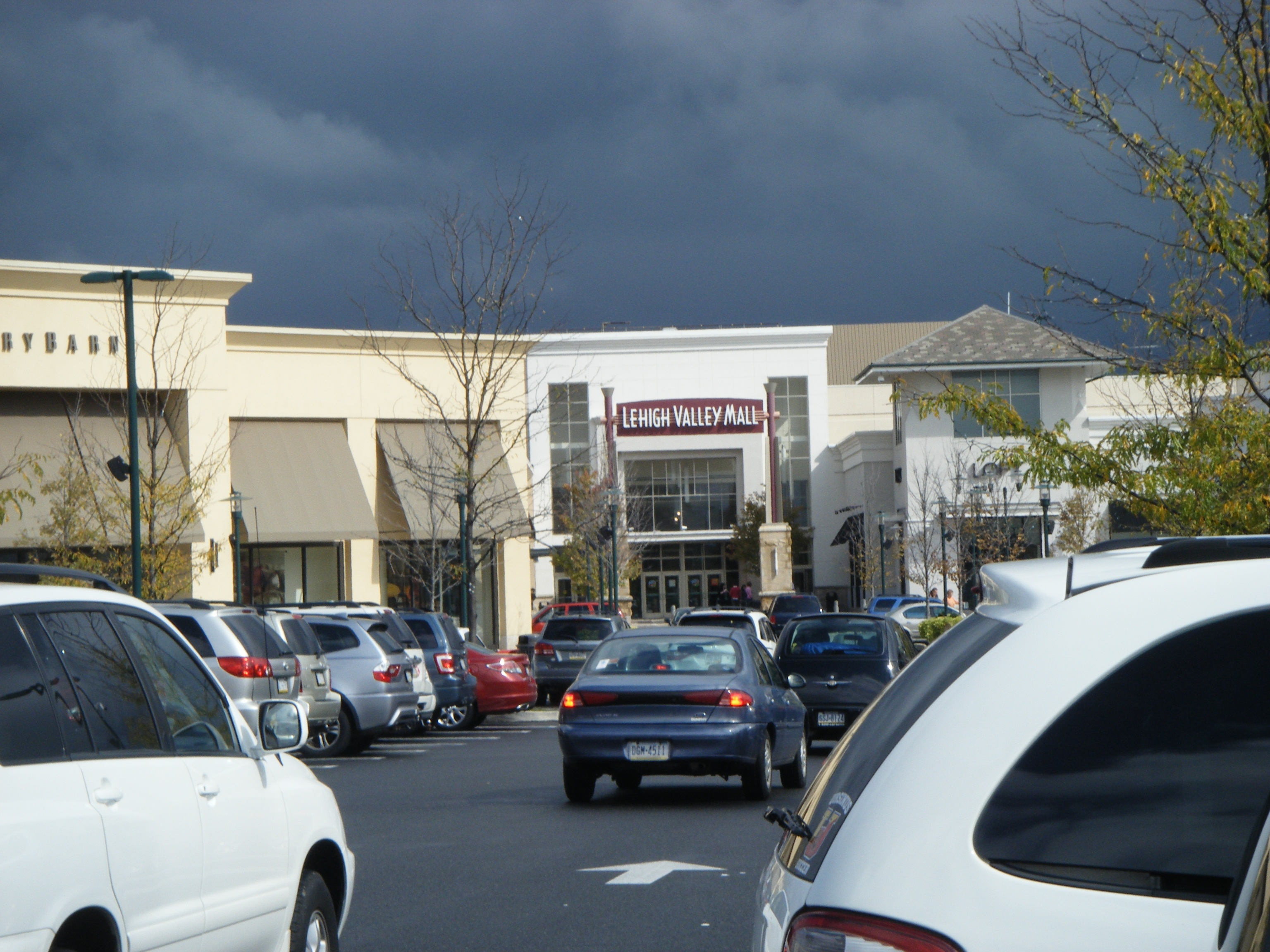 The lifestyle center entrance to the Lehigh Valley Mall in Whitehall, Pennsylvania